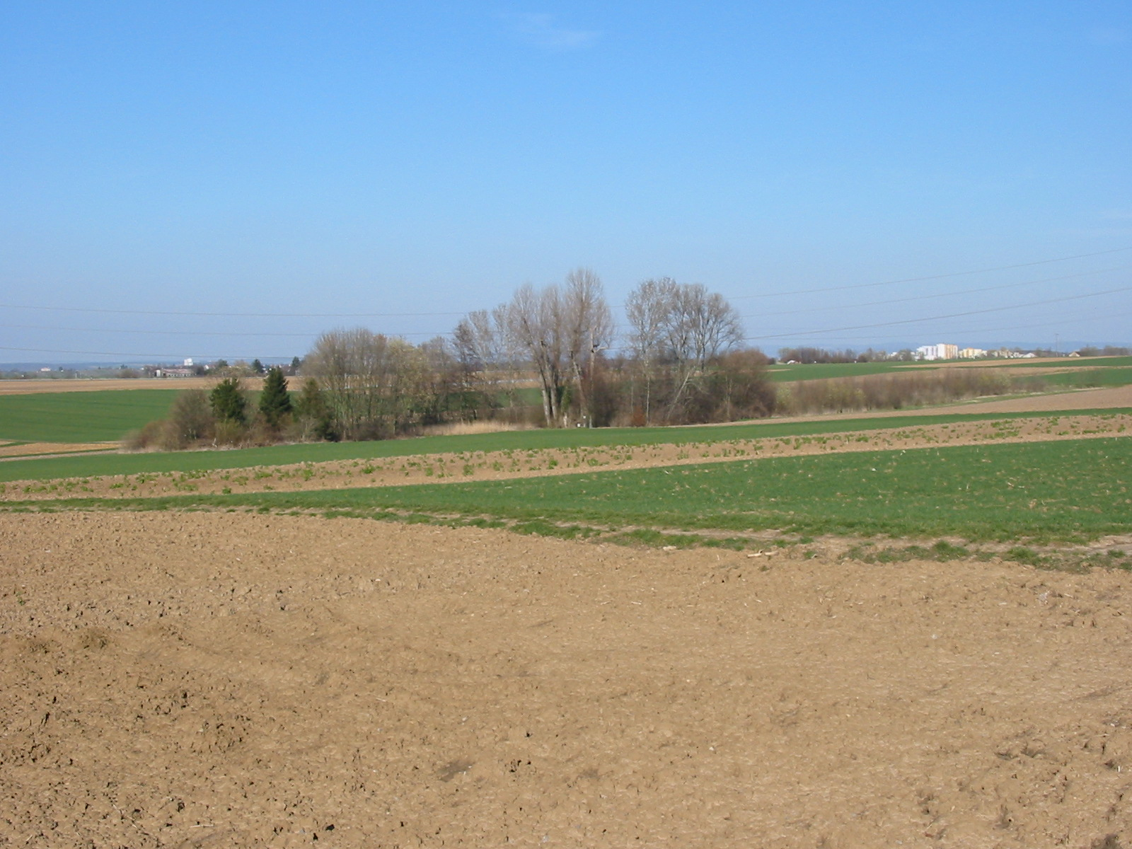 Voehingen, deserted mediaeval town, near of Schwieberdingen, Germany